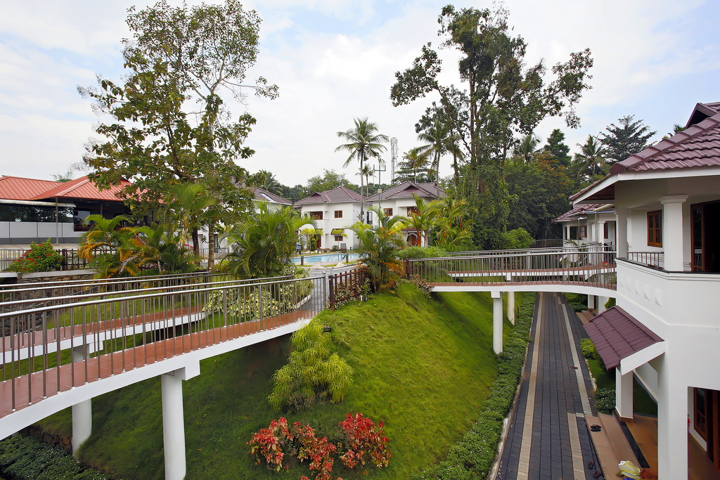 Sreedhareeyam Ayurvedic Eye Hospital & Research Centre